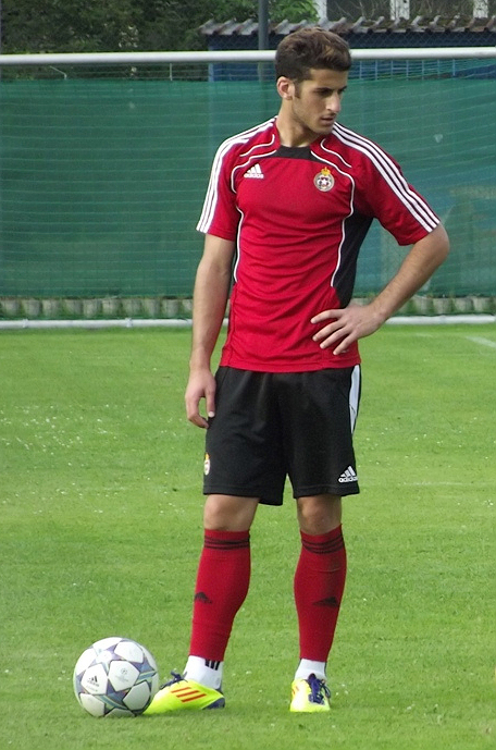 Dudu Biton